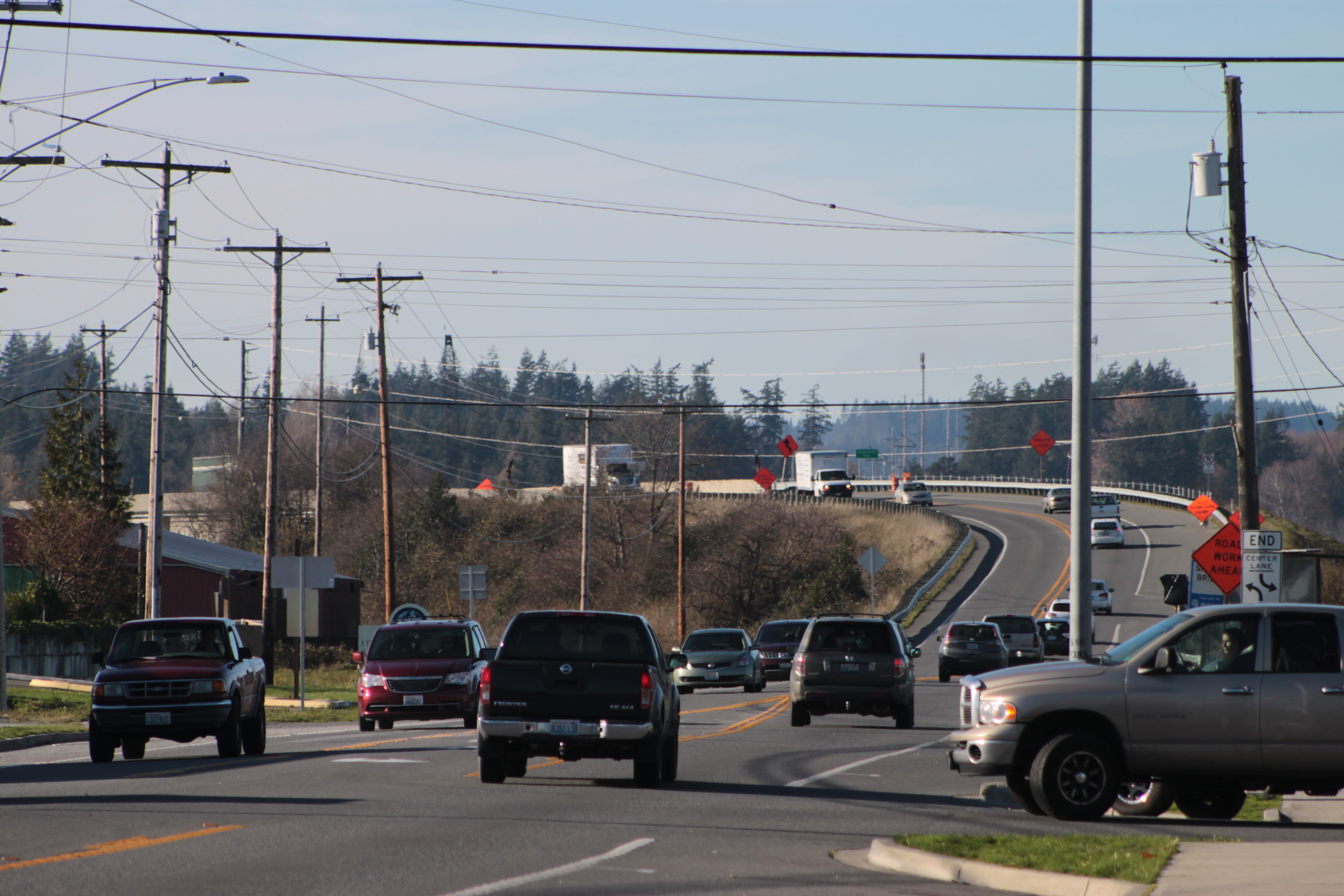 Looking eastbound on Washington State Route 532 at 102nd Avenue Northwest in Stanwood, approaching Camano Island